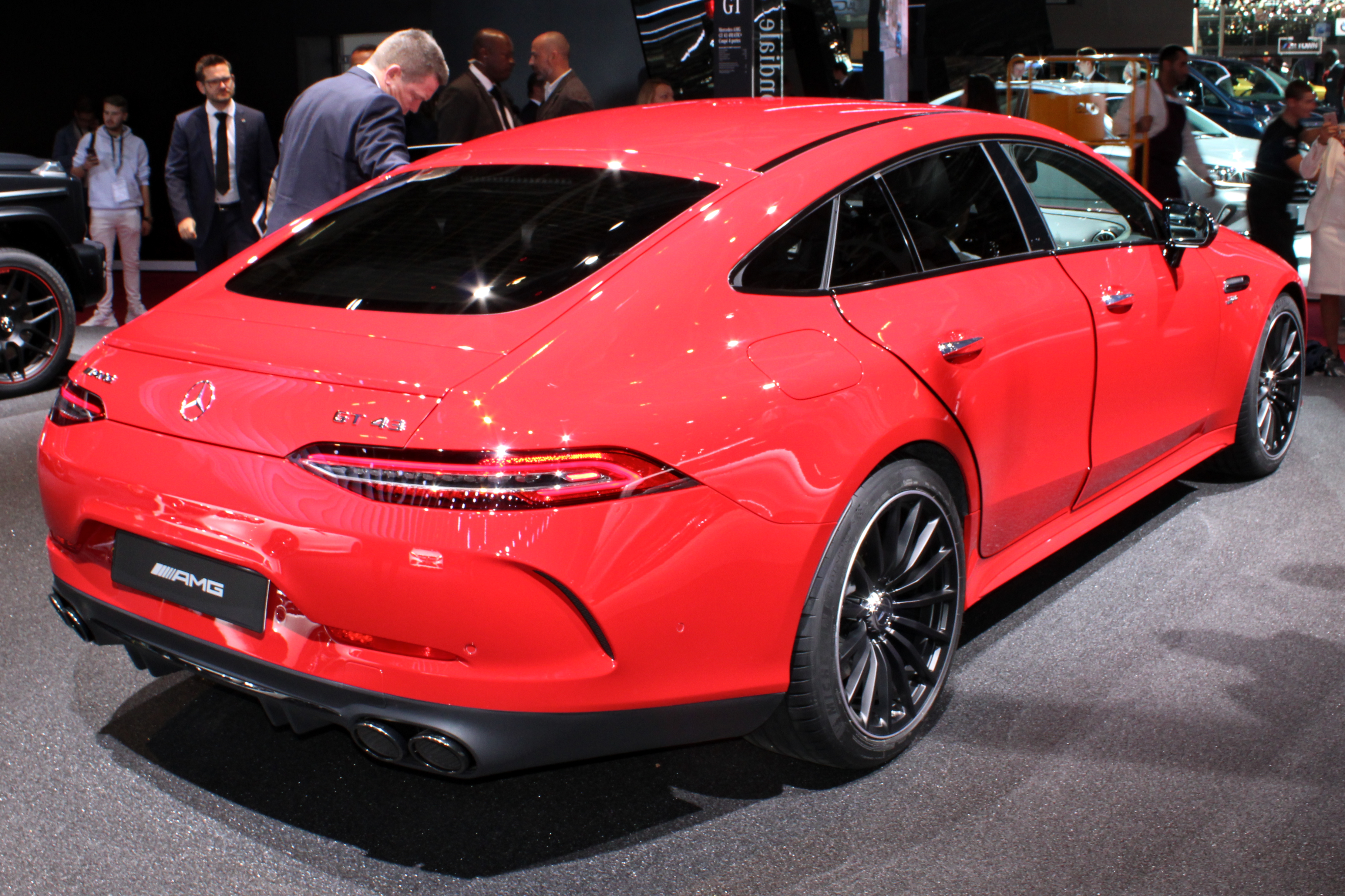 Mercedes-AMG GT 43 4Matic+ Coupe 4-doors at Paris Motor Show 2018